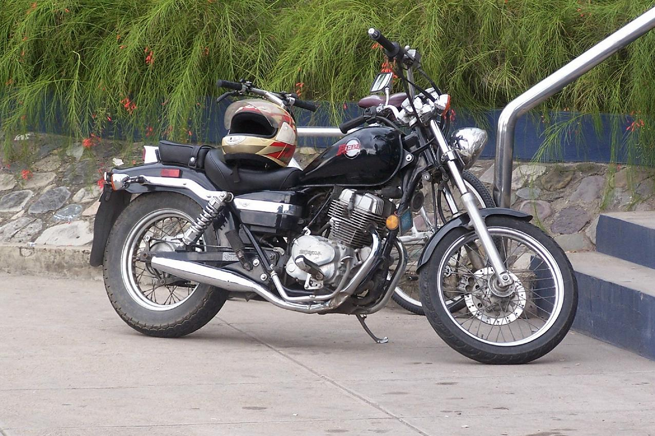 Photo of Honda Rebel (with bicycle behind it) Taken by me: User:SamBlob Make: EASTMAN KODAK COMPANY Model: KODAK Z740 ZOOM DIGITAL CAMERA Shutter Speed: 1/181 second F Number: F/3.2 Focal Length: 23 mm ISO Speed: 80 Date Picture Taken: Oct 20, 2006, 12:17:26 PM